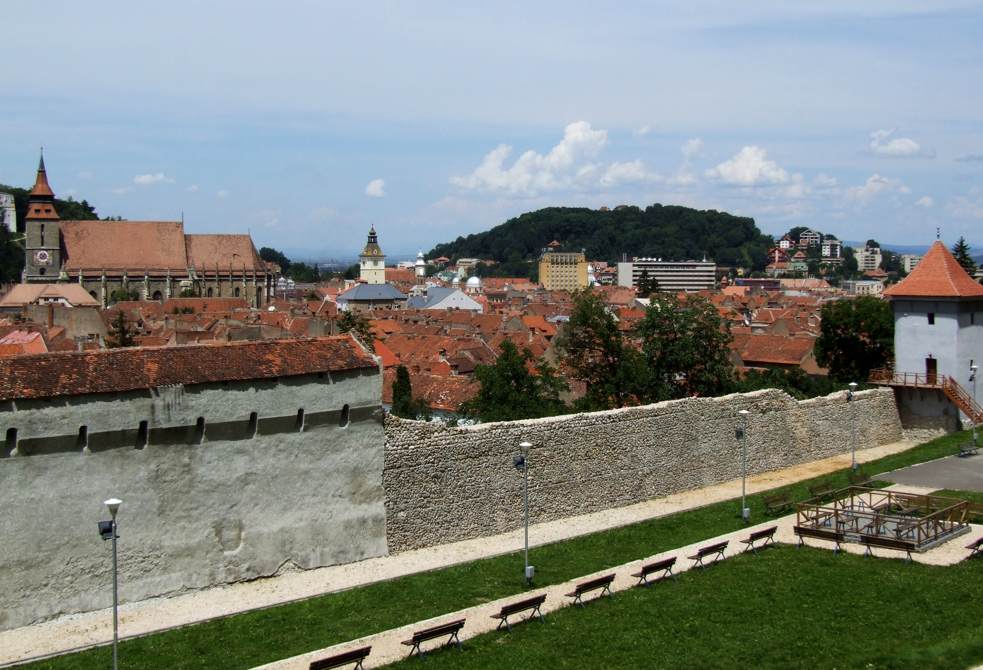 Braşov (Kronstadt, Brassó) - old city and city wall